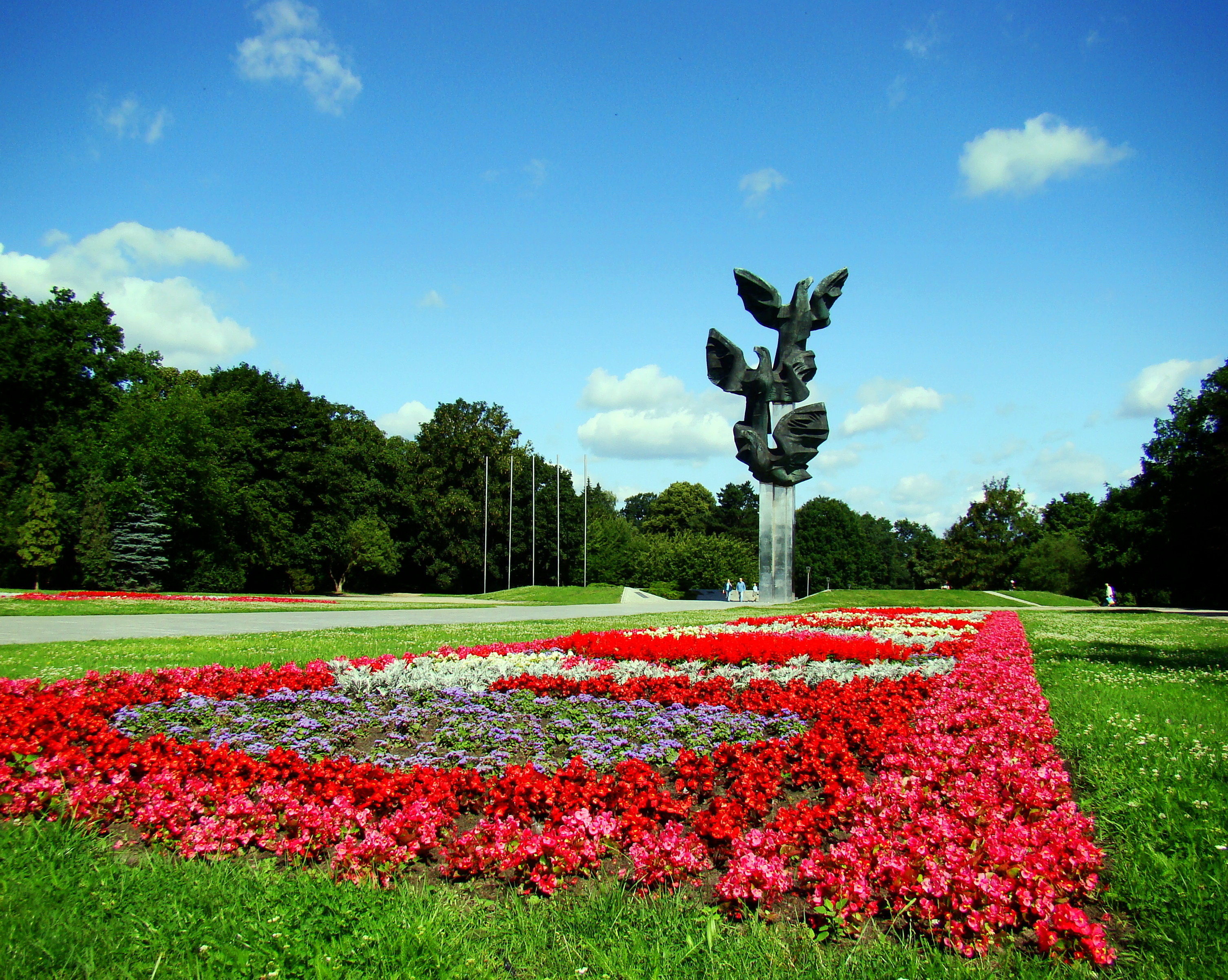 Monument to Polish Endeavor, Szczecin, Poland